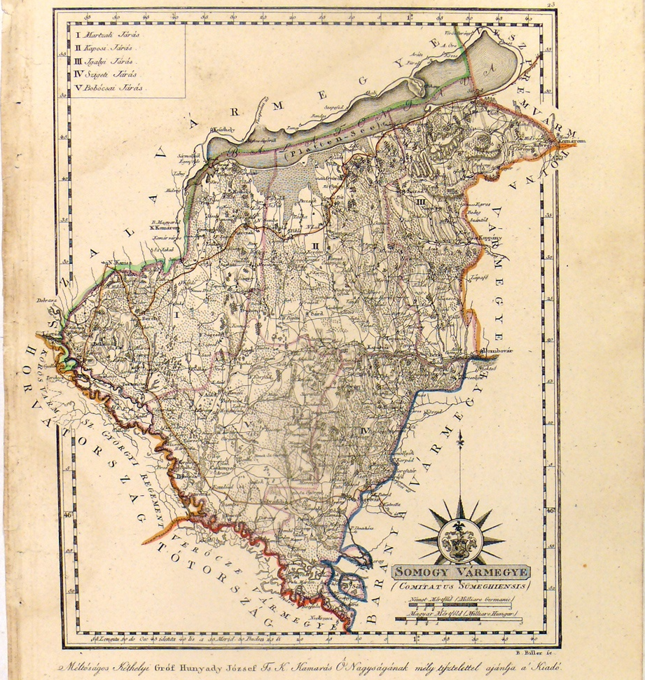 The map of the Hungarian county Somogy from 1803, created by Demeter Görög.